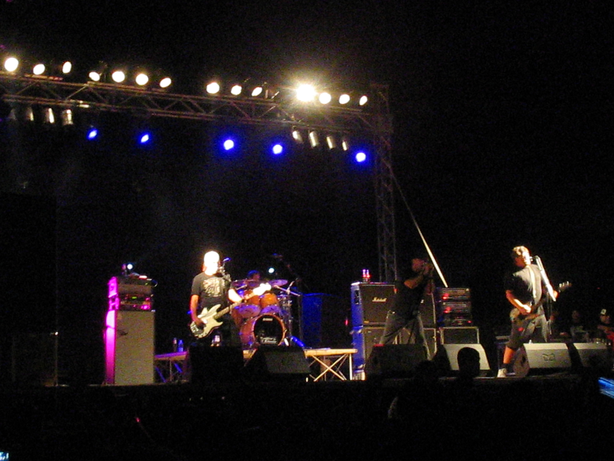 Pennywise in concert @ My Summer Fest, Cagliari, Italy.